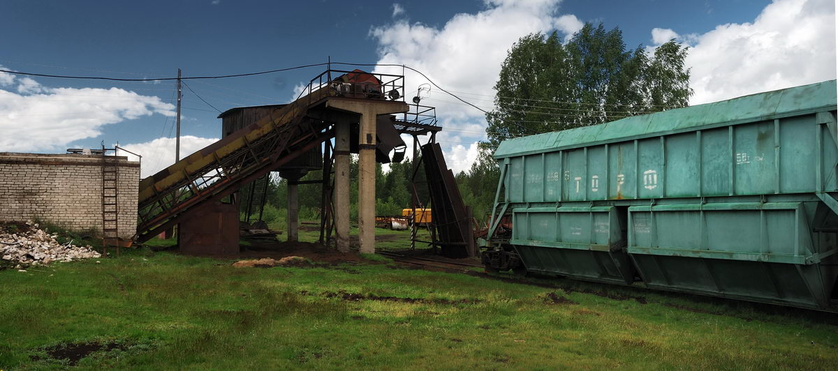 Narrow-gauge railway of Dymnogo peat enterprise (Торфоперегруз)